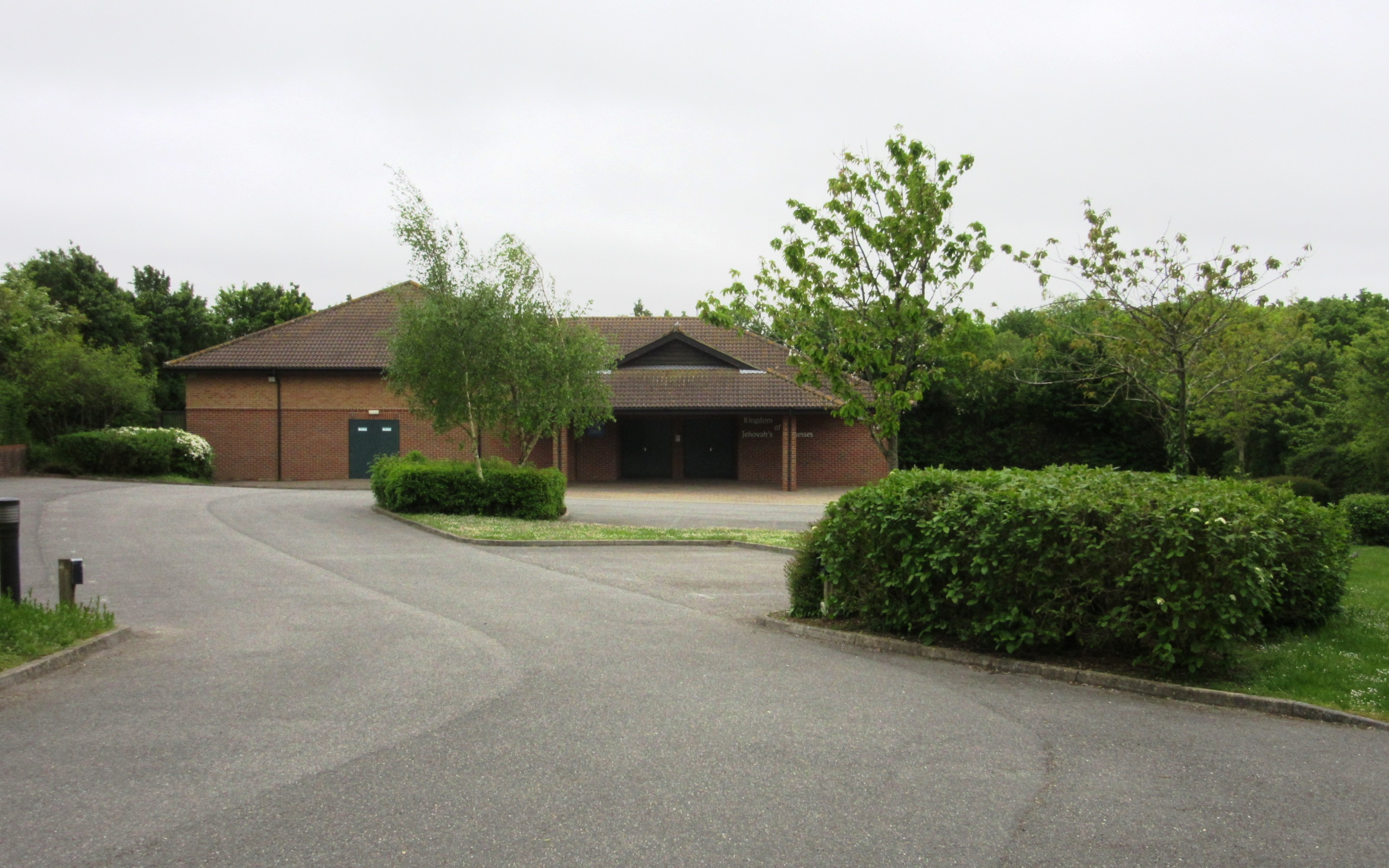 Kingdom Hall, Buckbury Lane, Staplers, Newport, Isle of Wight, England. A Kingdom Hall of Jehovah's Witnesses on the southeastern edge of the town of Newport. It was built in the early 21st century for Plymouth Brethren but was acquired by Jehovah's Witnesses in 2009, and succeeded a Kingdom Hall on Petticoat Lane in Newport (demolished in 2010).